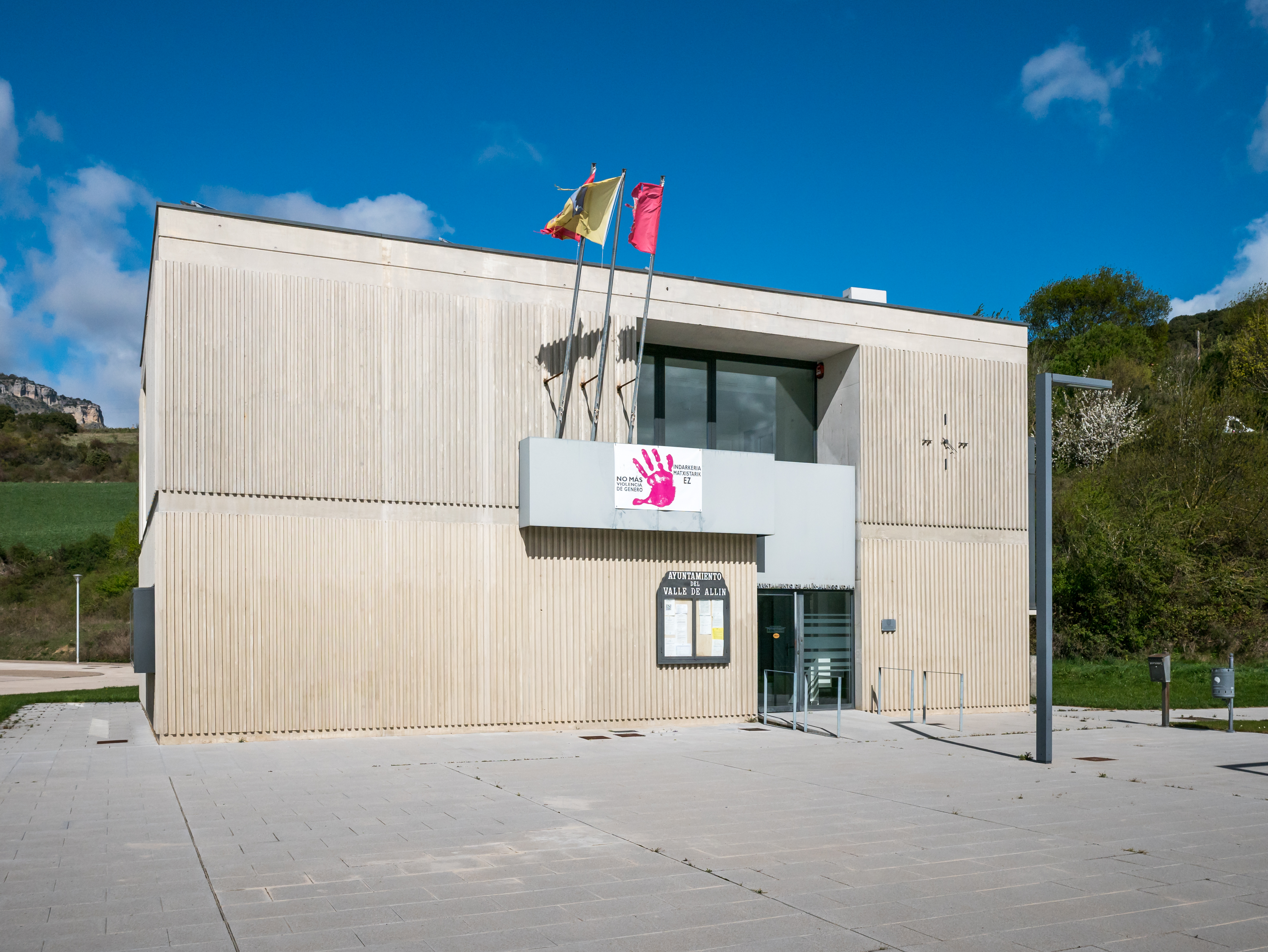 Town hall of Allín, Navarre, Spain